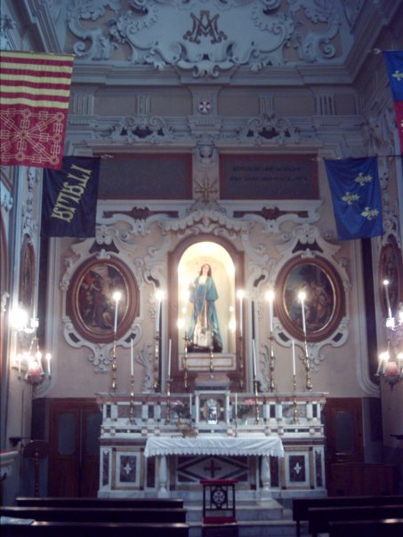 Church of St. Michael Taranto